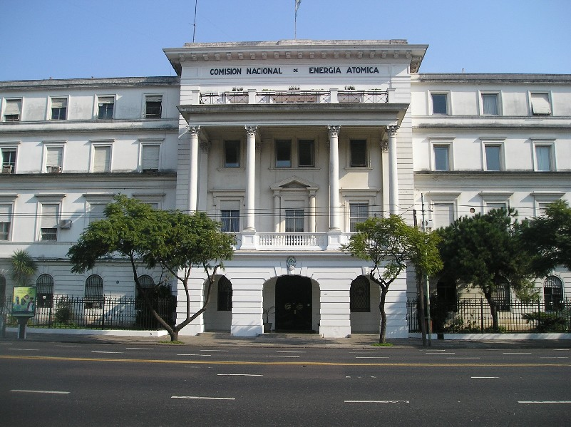 Comisión Nacional de Energía Atómica -CNEA- (National Commission of Atomic Energy). Av. del Libertador 1429, Buenos Aires. The original building, a school built in the mid 1930s, was significantly expanded for use as CNEA headquarters in 1952.